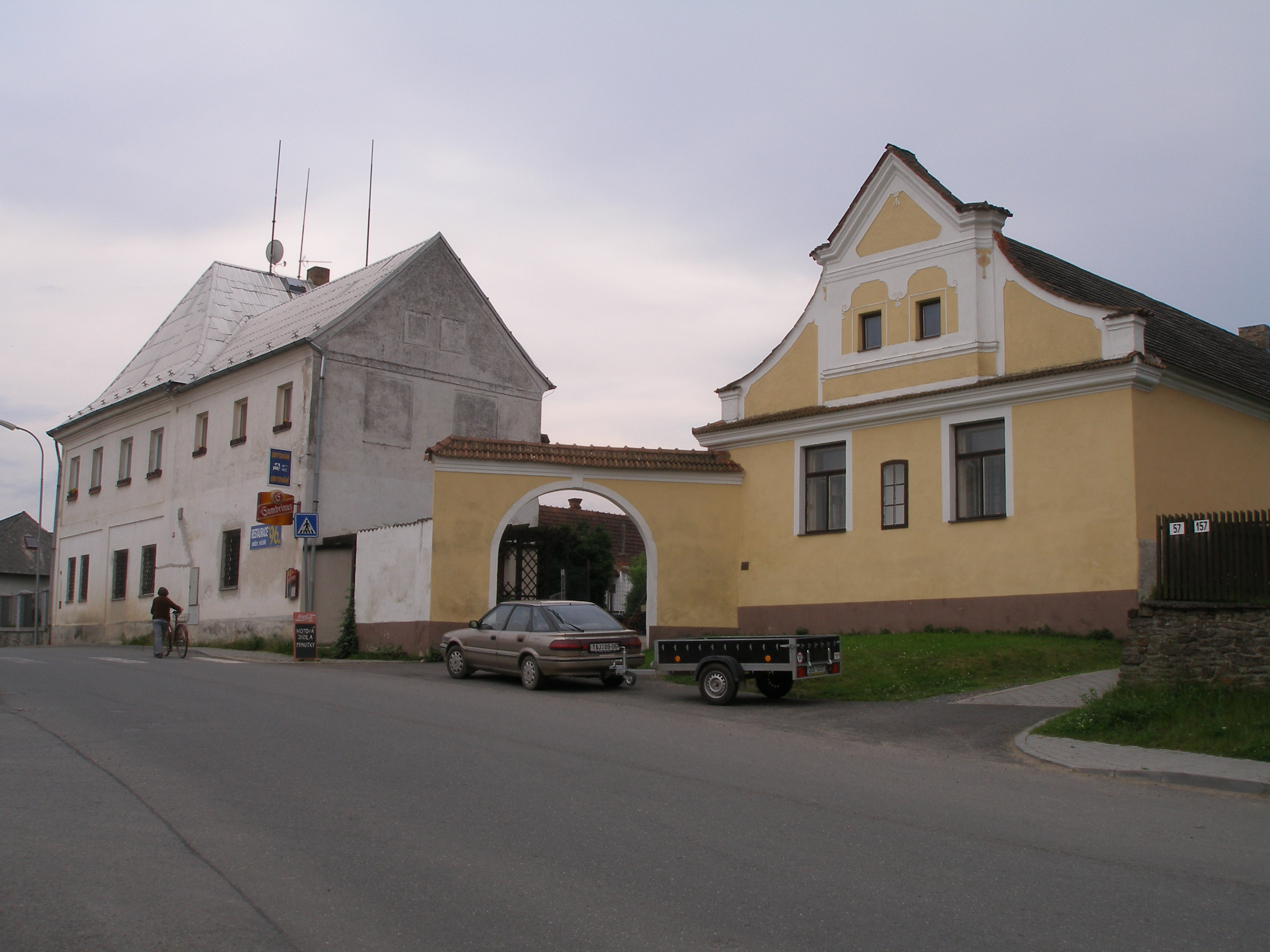 The pub in Košice (Tábor District)